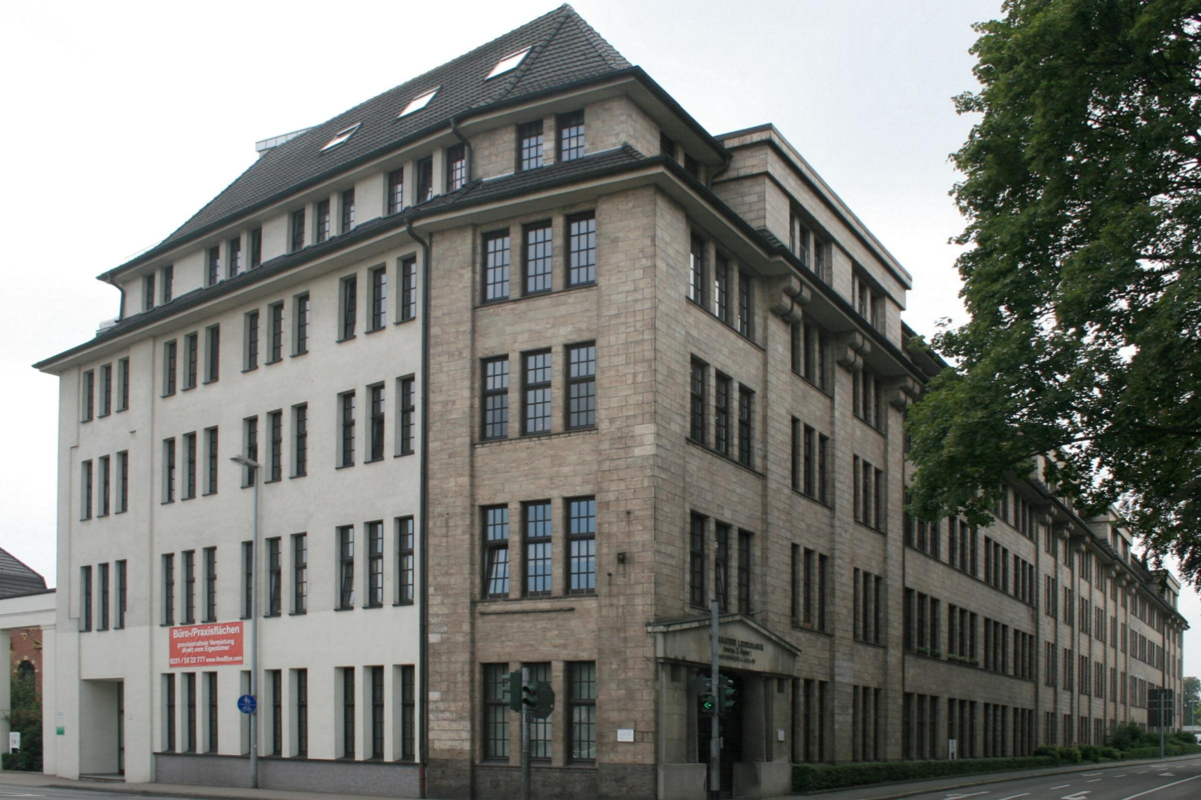 Cultural heritage monument No. B 126 in Mönchengladbach